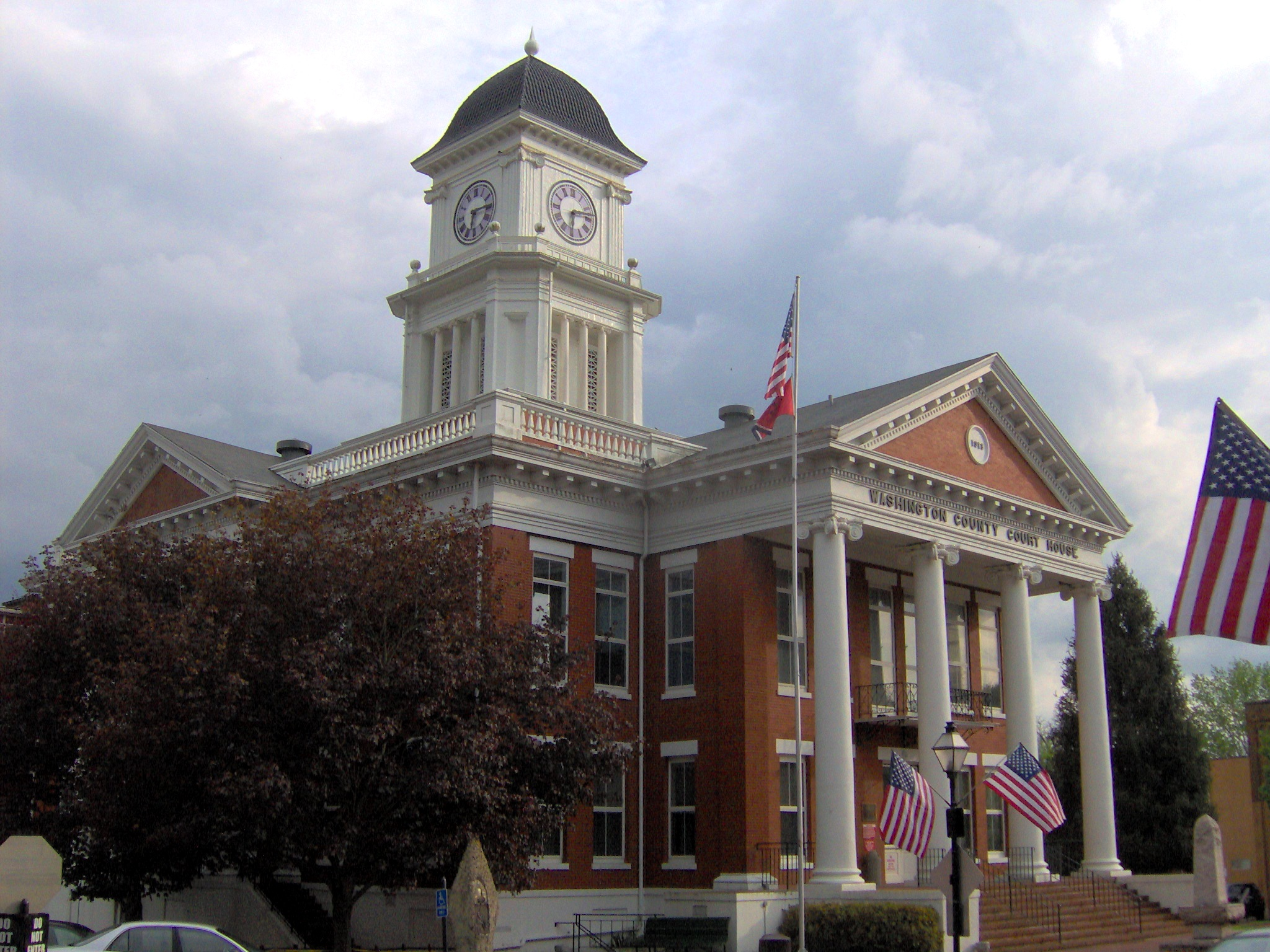 Washington County Courthouse in Jonesborough, Tennessee, in the southeastern United States.